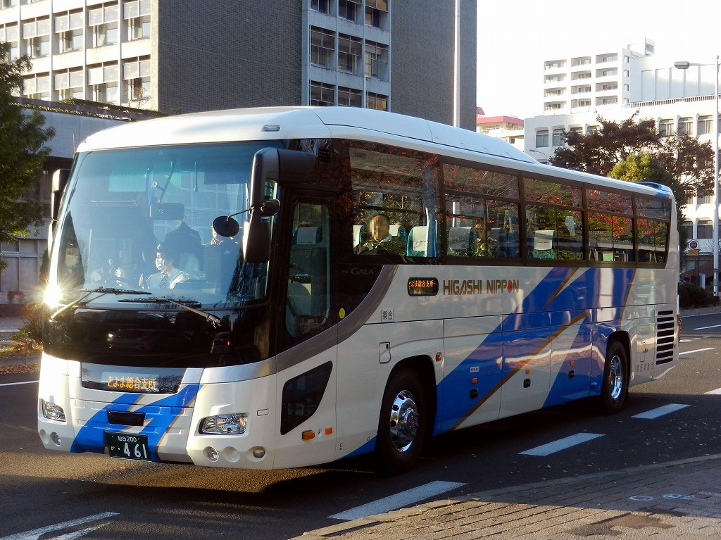 Higashinippon express Isuzu Gala (QRG-RU1ASCJ) highwaybus "Sendai -Toyoma"